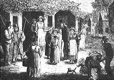 German Clothing of the members in the Harmony Society.